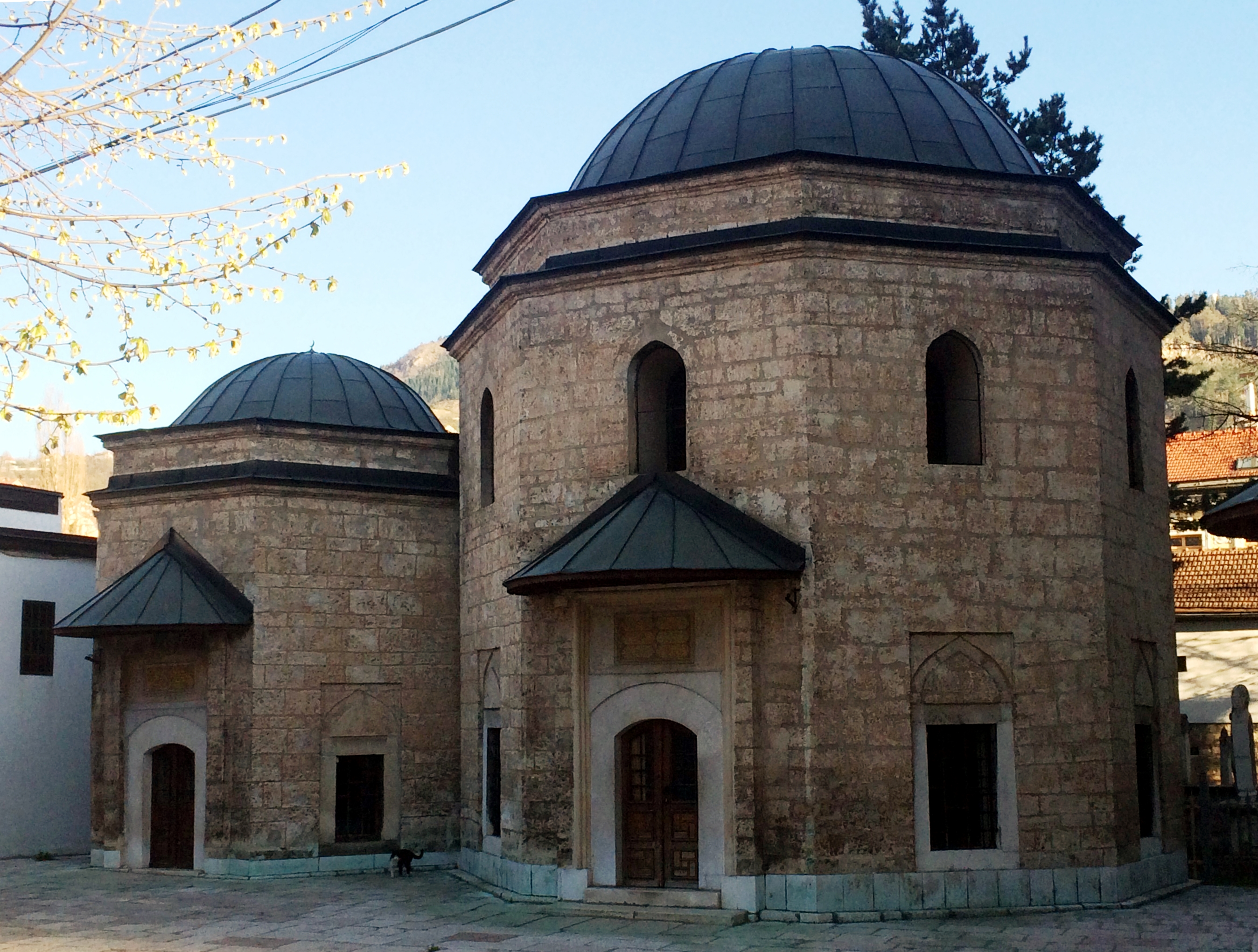 The Gazi Husrev Bey Mosque is part of the donations (waqf) of this governor, in Old Sarajevo, Bosnia. This is his mausoleum, side-by-side with the mosque.